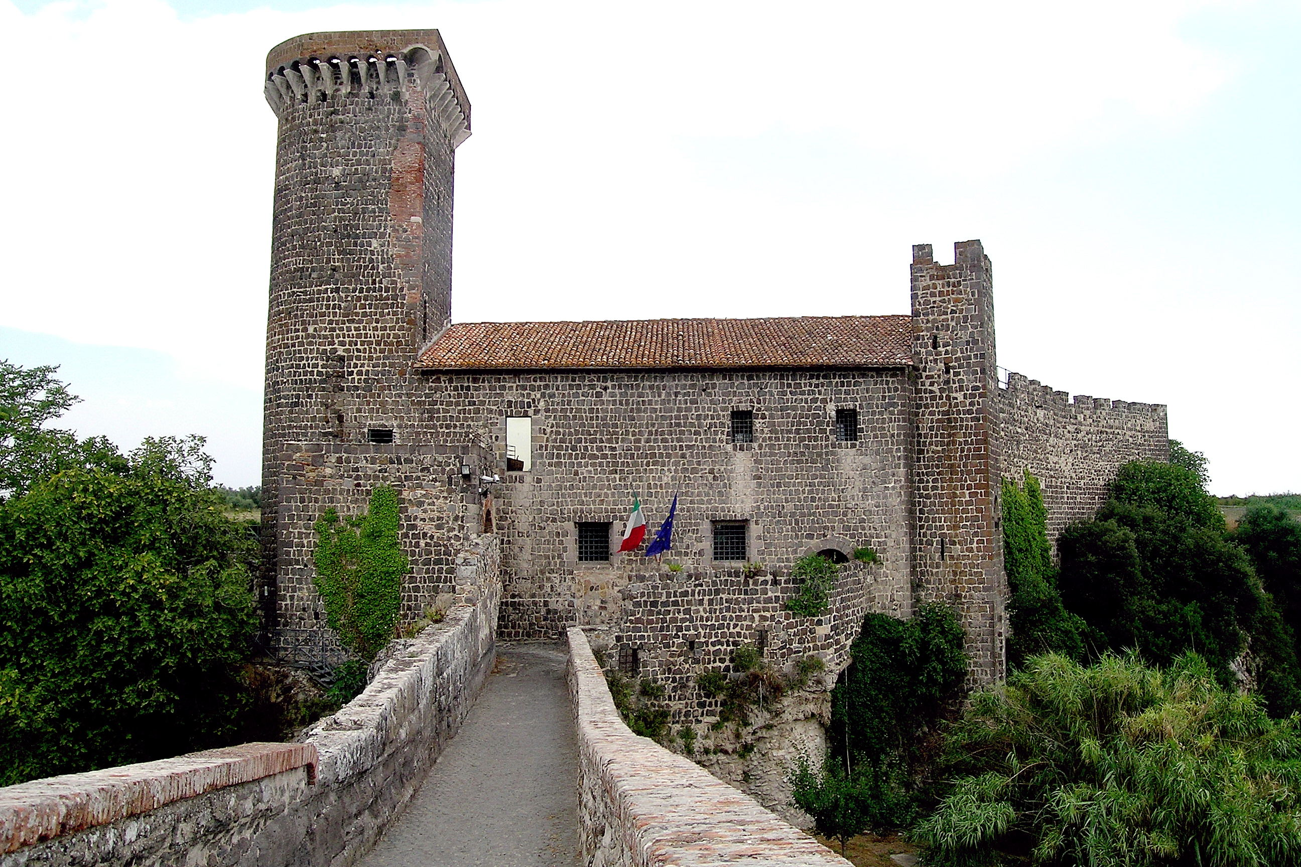 Museum in Vulci